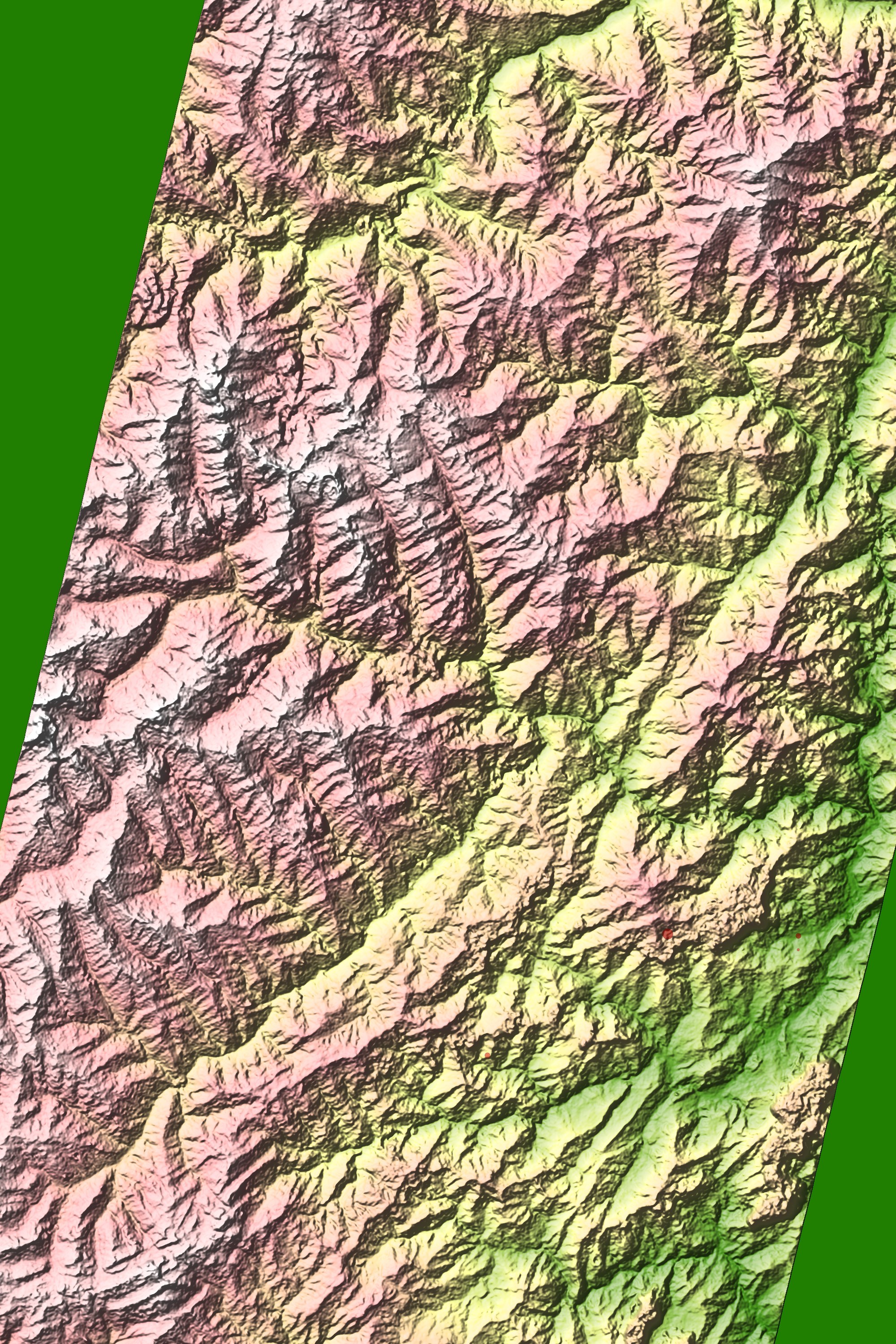 Sichuan Province's Rugged Terrain